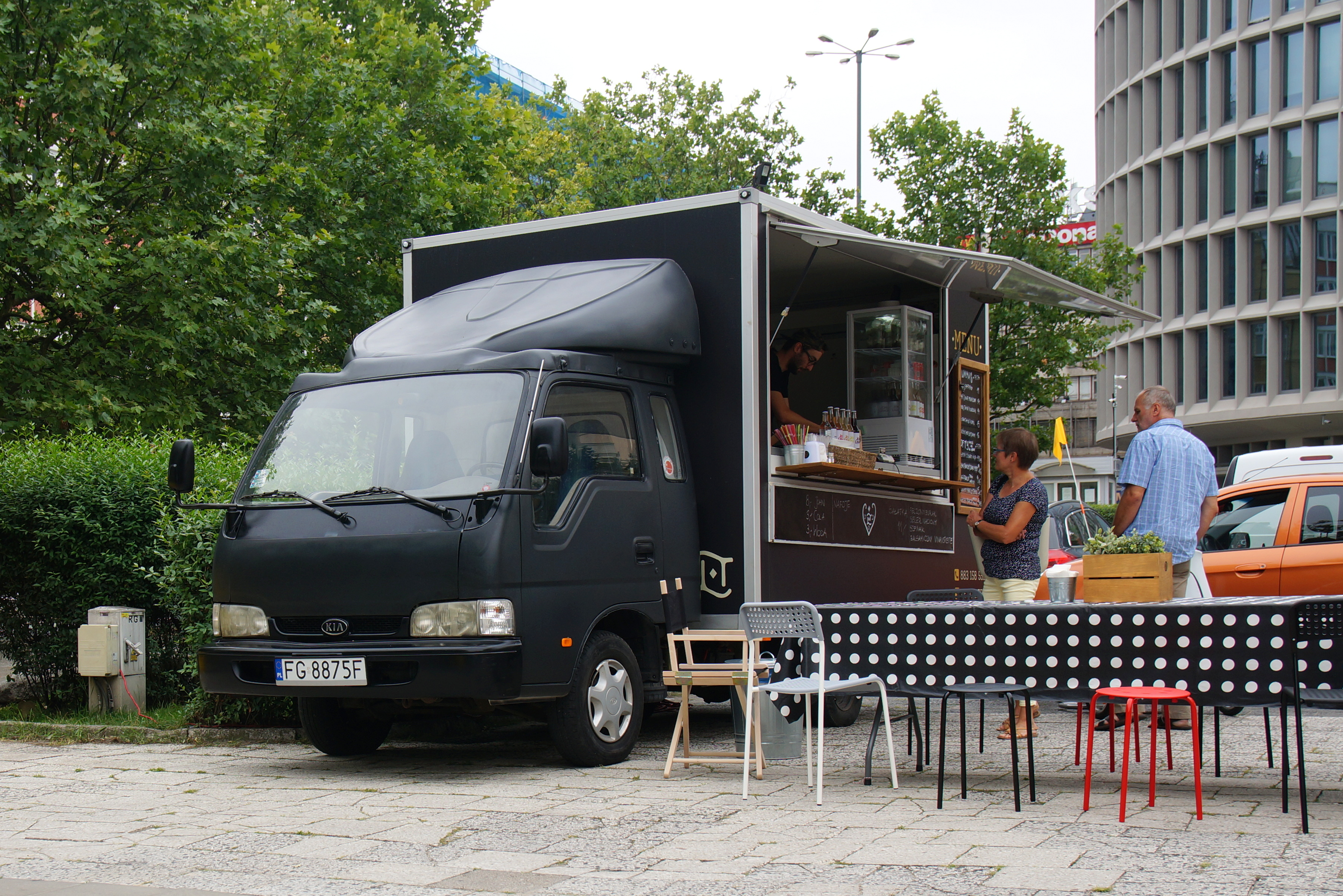 A food truck in Poland serving middle eastern cuisine